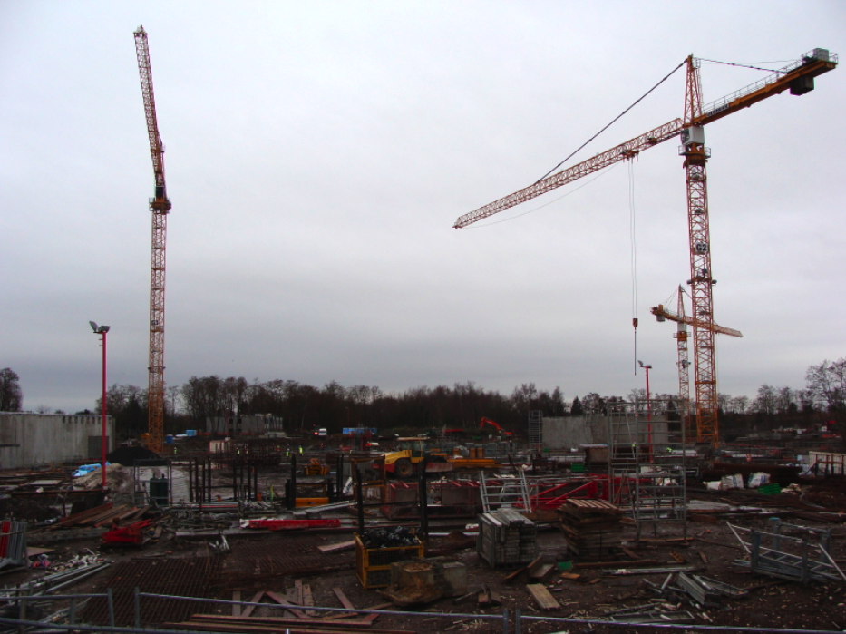 Louvre Lens construction